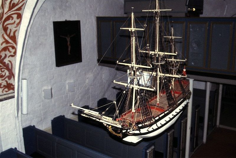 Sejerø Kirke (church). Model of Christian 4.'s ship "Trefoldigheden". From 1659.